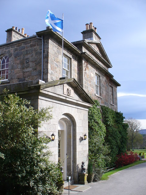 Raemoir House Hotel Former Innes mansion, now a hotel, in its own estate.